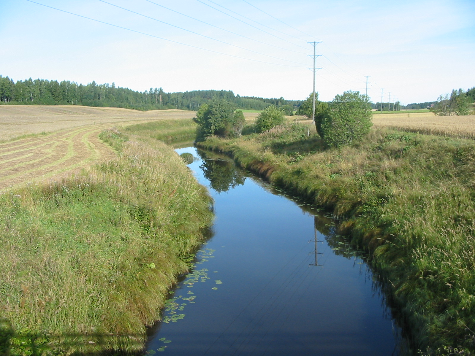 River Yläneenjoki at Uusikartano, Yläne, Pöytyä, Finland.